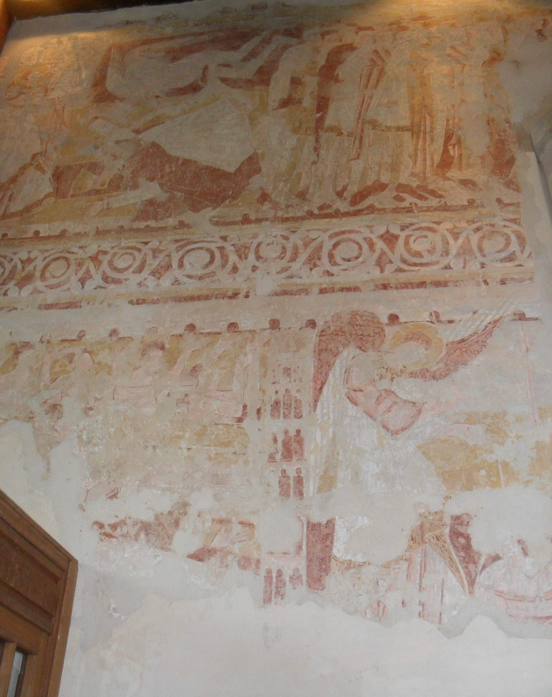 Nationally acclaimed 12th-century wall paintings on the north wall of the nave at the Grade I-listed Church of England parish church of St John the Baptist, Clayton, West Sussex, England.